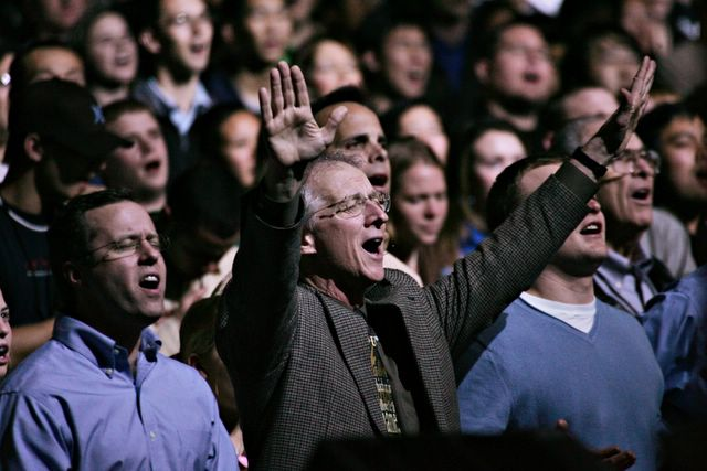 John Piper's church. Also see here